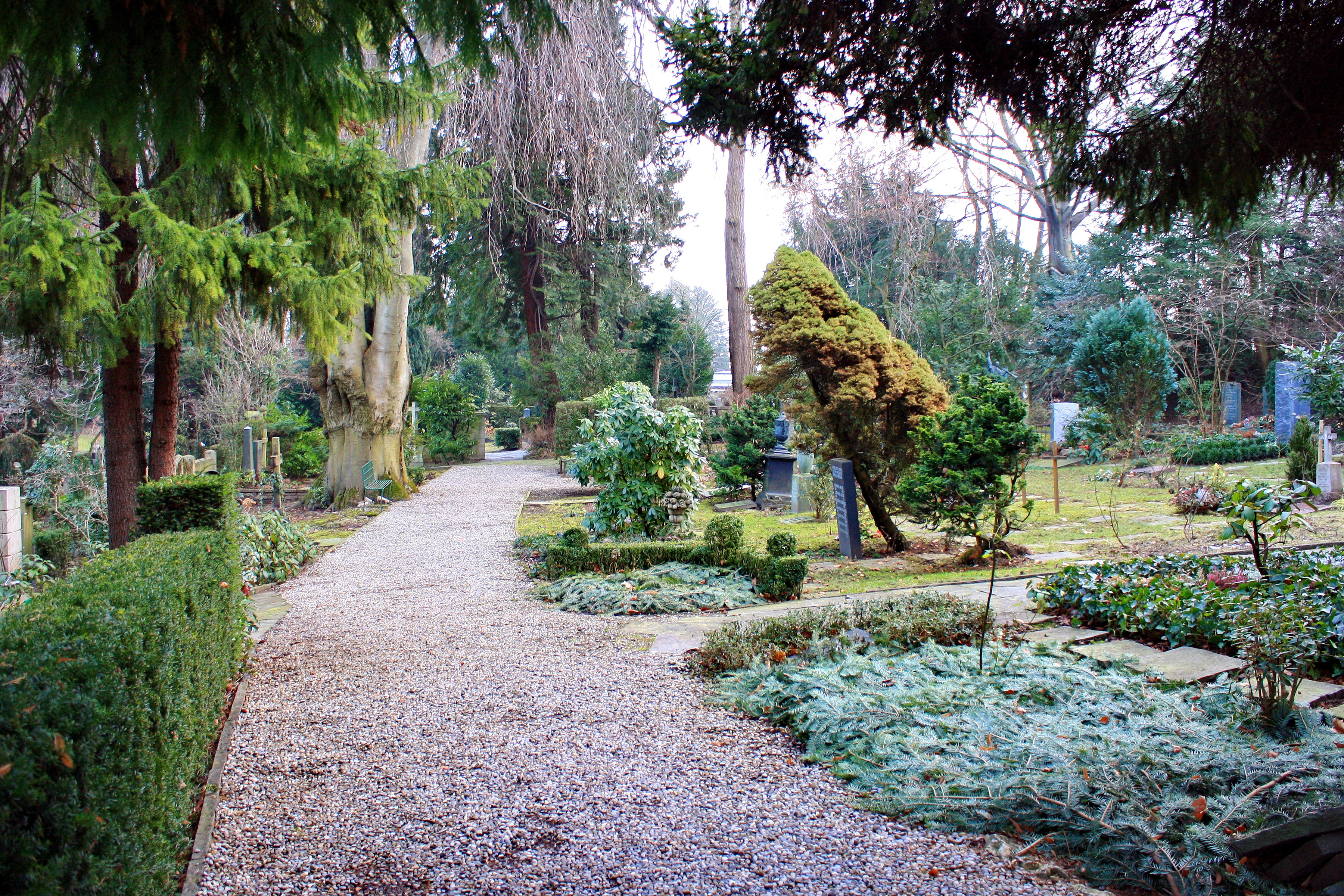 Privatfriedhof (private cemetery) located at Hohe Promenade in Zürich (Switzerland)